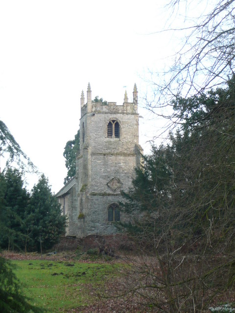 Parish church of St John of Jerusalem, Winkburn, Nottinghamshire, seen from the northwest